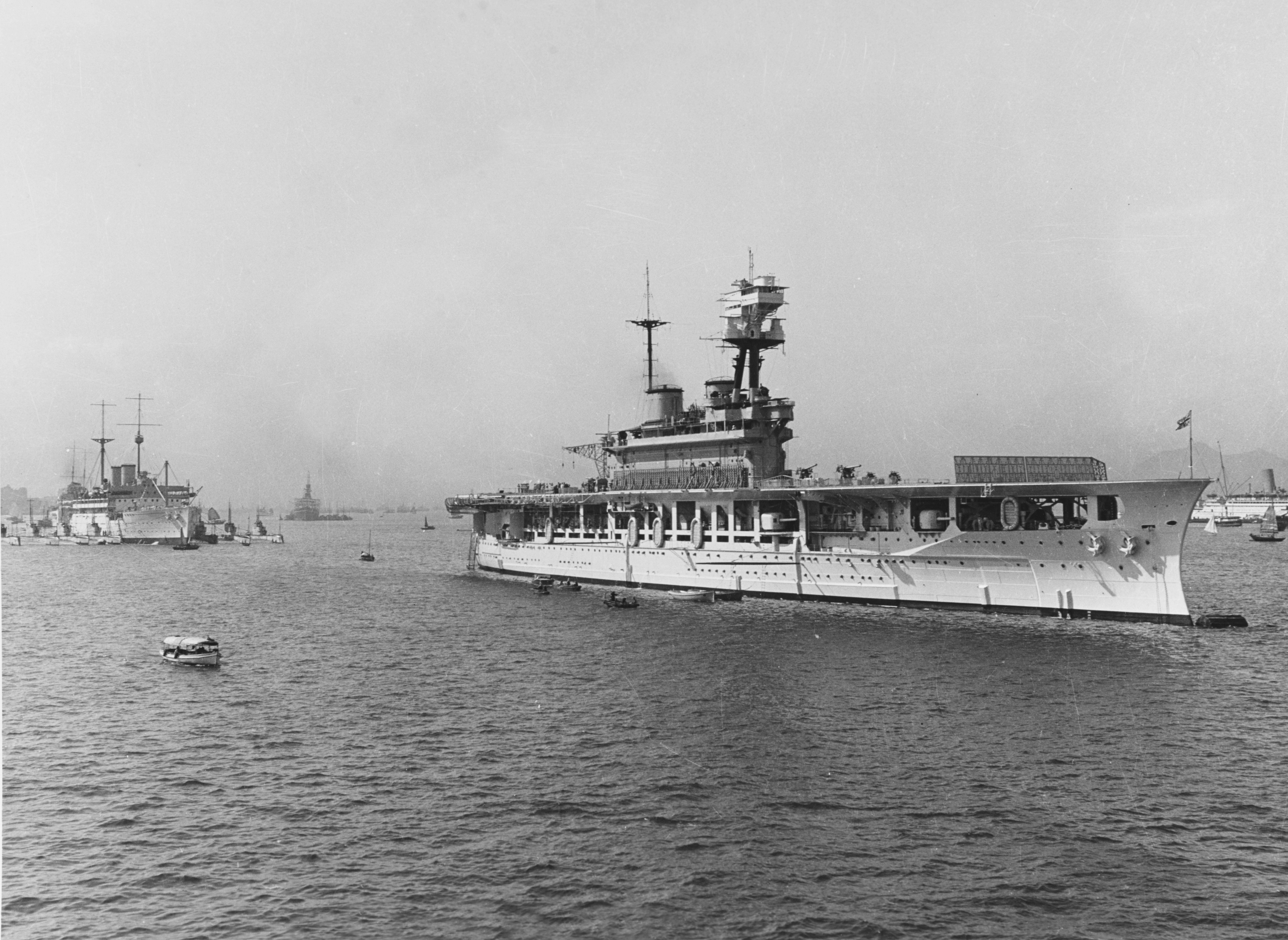 The Royal Navy aircraft carrier HMS Eagle at Hong Kong, China, sometime during the 1930s. The depot ship HMS Medway is in the background with submarines of the "O" and "P" classes nested alongside.